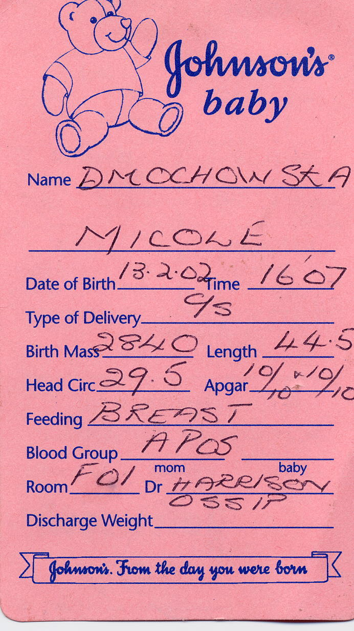 Micole Dmochowska's birth card with apgar test results